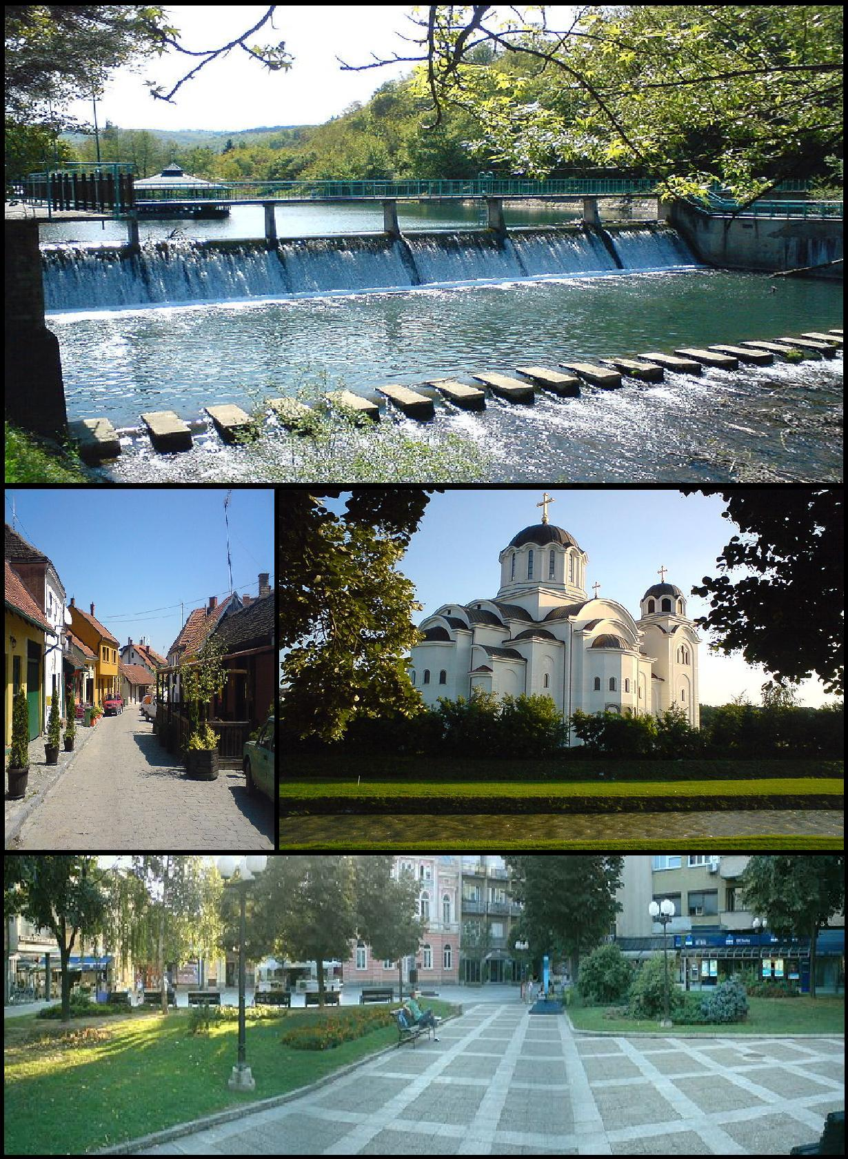 Gradac Dam on river lower flow. Tešnjar old urban settlement in Valjevo. Temple of Our Lord’s Resurrection in Valjevo. Desanka Maksimović square in Valjevo.